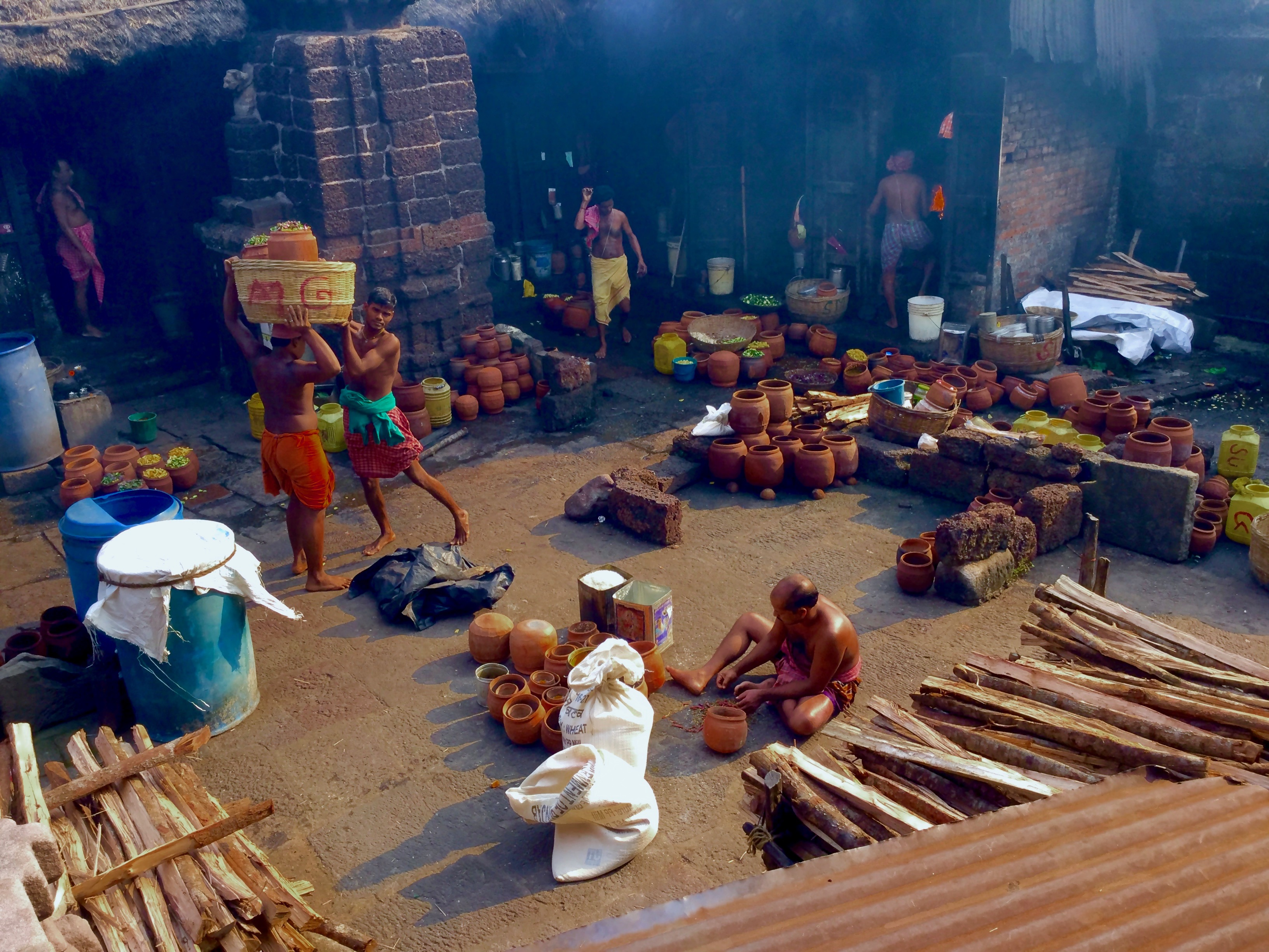 The temple kitchen of the Ananta Basudeba Temple in Bhubaneswar, Odisha, India.